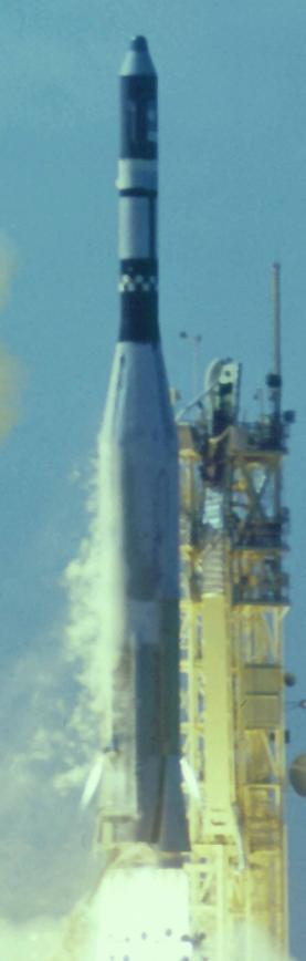 Launch of Atlas Agena D rocket with spy satellite KH-7 05